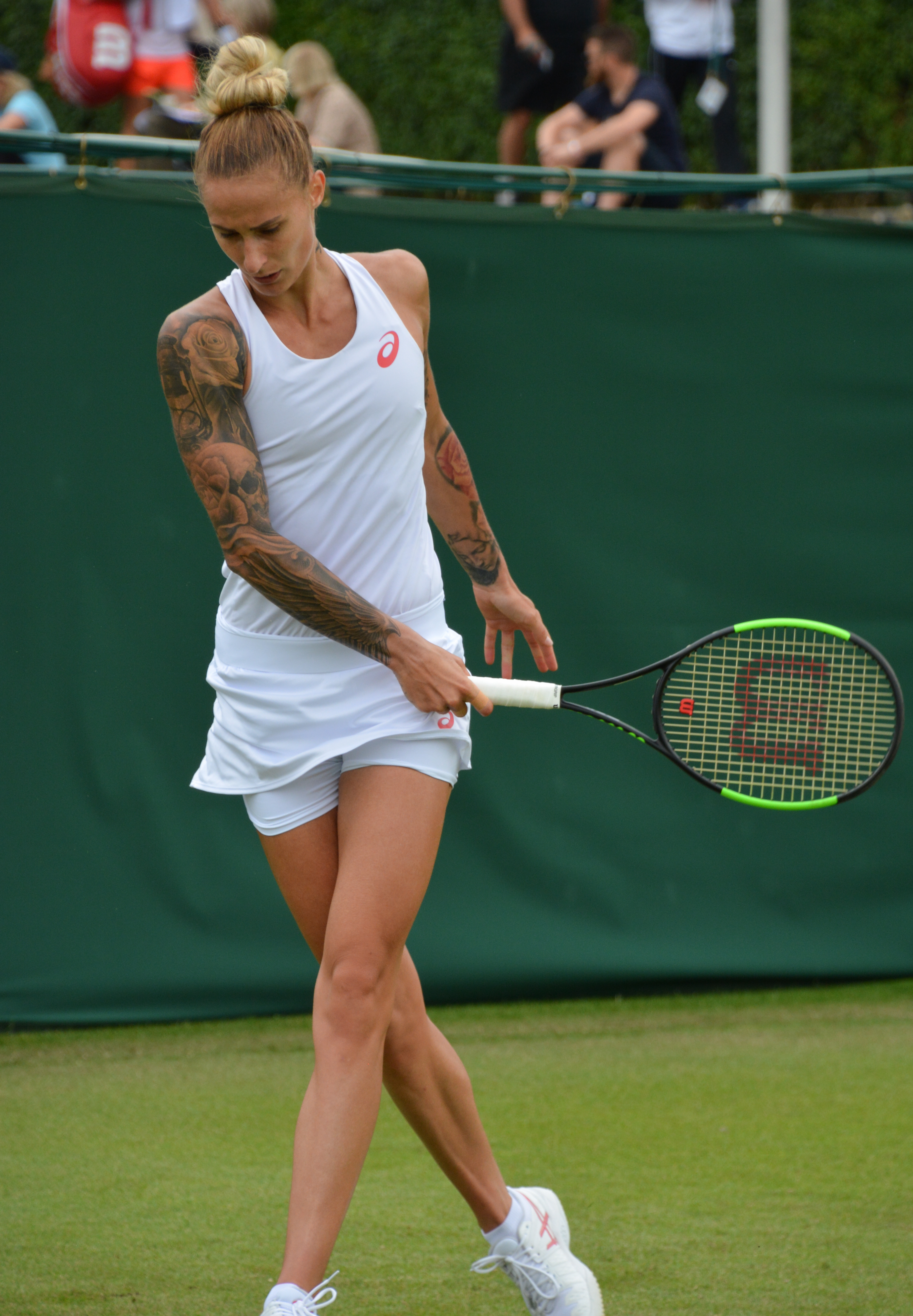 Wimbledon qualifying, Roehampton 2017.